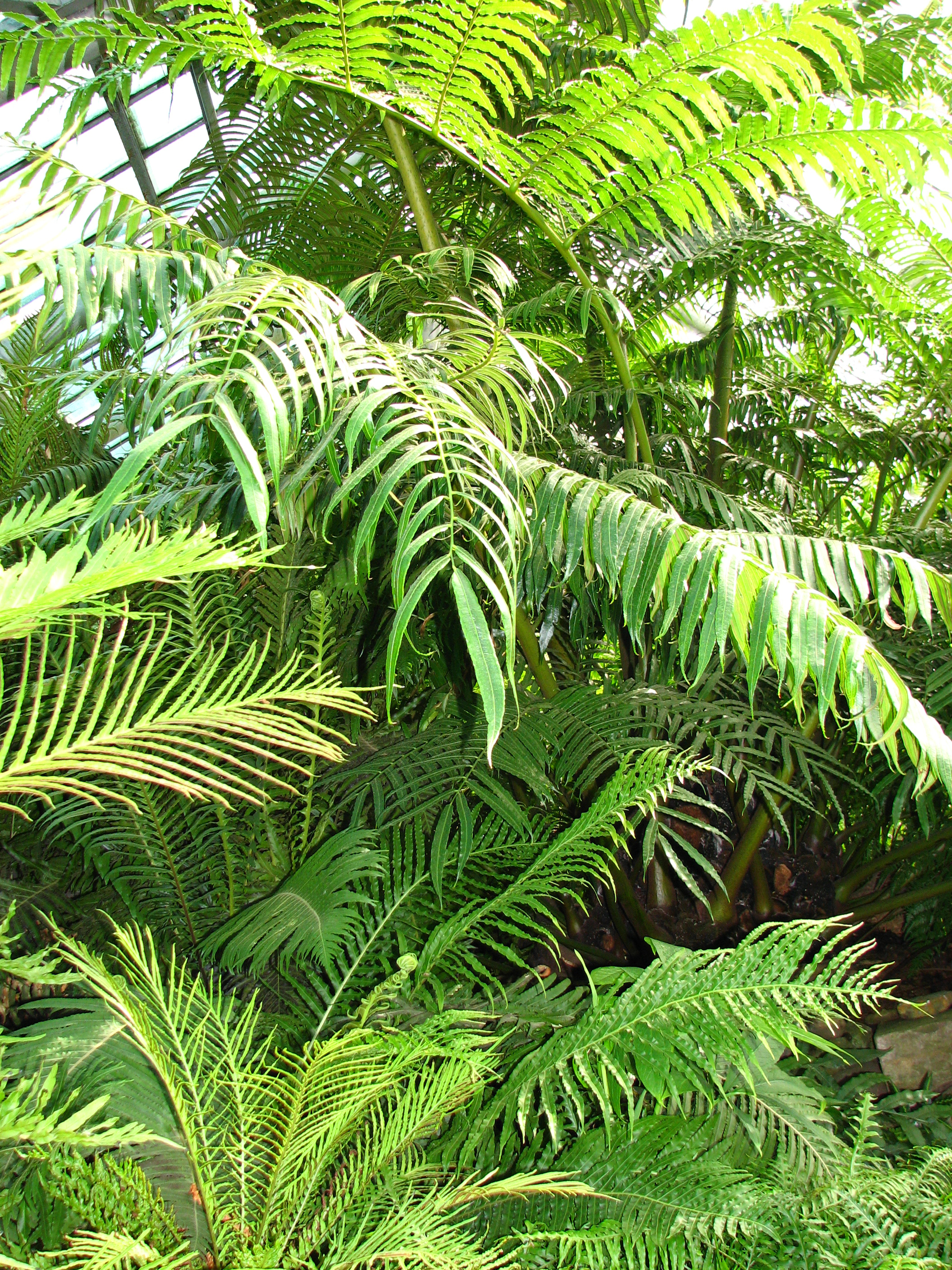 Greenhouses of the Botanical garden (Saint Petersburg).